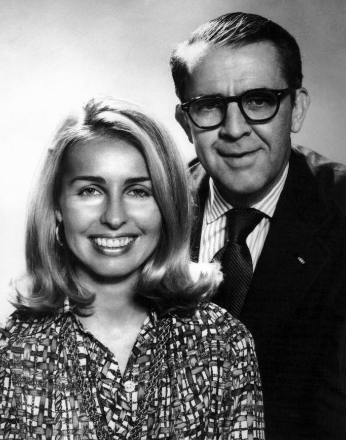 Publicity photo of Sally Quinn and Hughes Rudd.